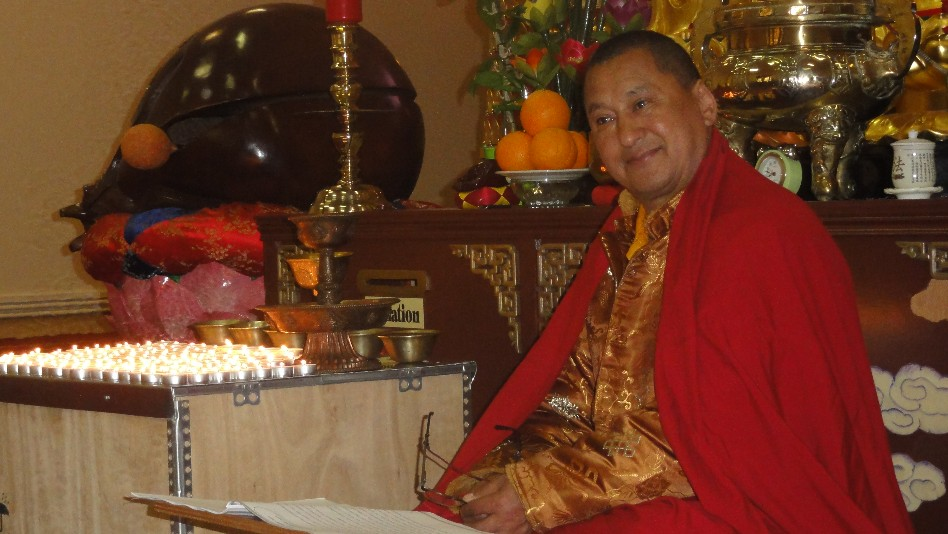 Ven. Lama Tharchin Rinpoche's teaching Dharma in France